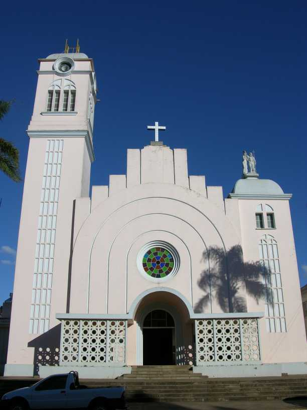 church of Sao Joao Batista, Campos Novos, SC